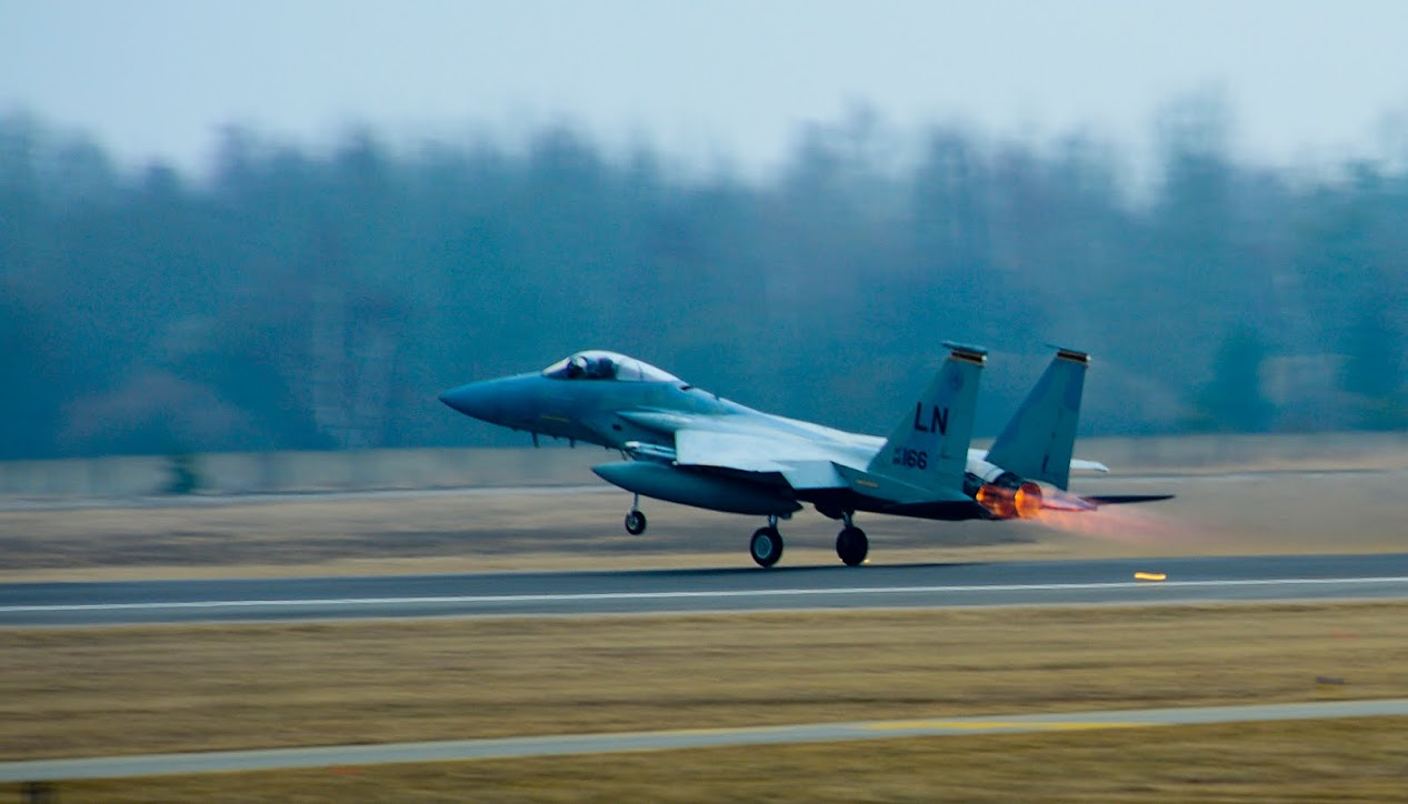 A U.S. Air Force F-15C Eagle aircraft takes off from Siauliai Air Base, Lithuania, during a training scramble mission March 7, 2014. The U.S. Air Force assumed command of the NATO Baltic Air Policing mission for a four-month rotation from January to May of 2014.